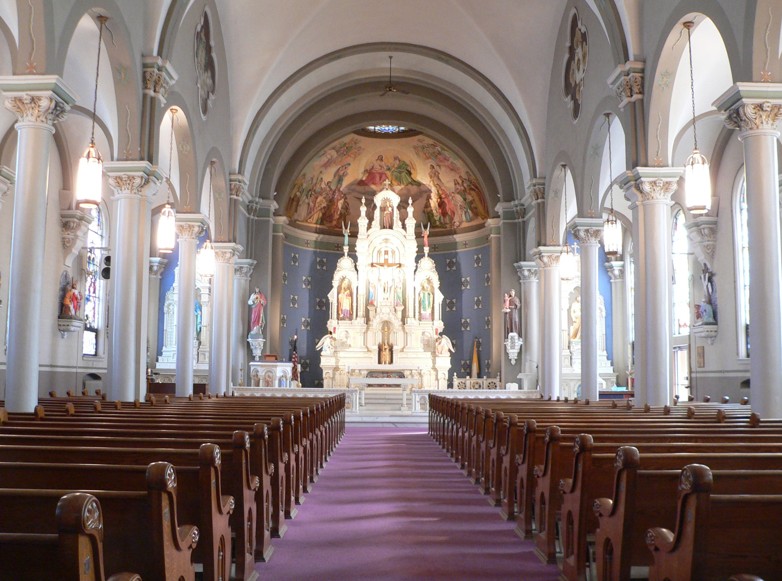 Interior of St. Leonard's Catholic Church in Madison, Nebraska; seen from the rear. The church was designed in Romanesque Revival style by architect Jacob M. Nachtigall, and built in 1913. With its rectory and a garage, it is listed in the National Register of Historic Places.